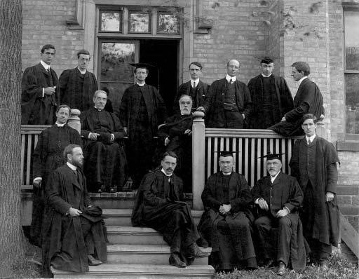 The faculty of Trinity College at the time of federation with the University of Toronto. Top row, left to right: E.M. Sait, H.T.F. Duckworth, William Clark, Provost T.C.S. Macklem, William Jones, G. Oswald Smith, H.C. Simpson, E.L. King and M.A. Mackenzie. Bottom row, left to right: A.W. Jenks, A.H. Young, T. Fraser Scott, T.H. Hunt, J.W.G. Andras and E.T. Owen. This Canadian work is in the public domain in Canada because its copyright has expired due to one of the following: 1. it was subject to Crown copyright and was first published more than 50 years ago, or it was not subject to Crown copyright, and 2. it is a photograph that was created prior to January 1, 1949, or 3. the creator died more than 50 years ago.